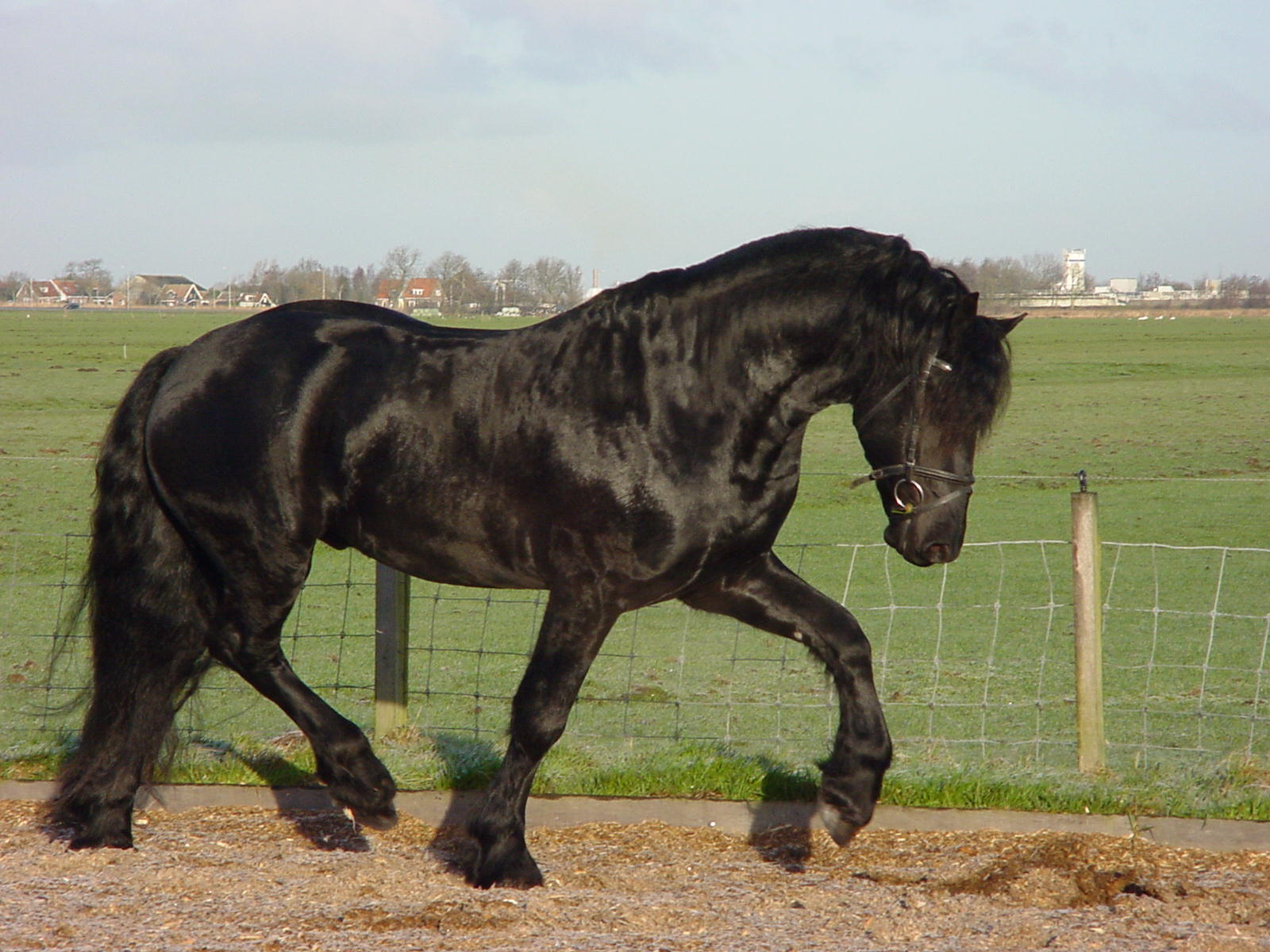 Friesian Horse